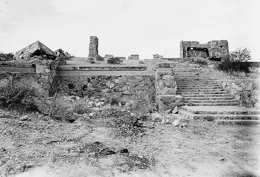 Rose Pauson House (Shiprock Ruins) — designed by Frank Lloyd Wright, site in Arizona. 1979 Image courtesy of Historic American Buildings Survey—HABS.